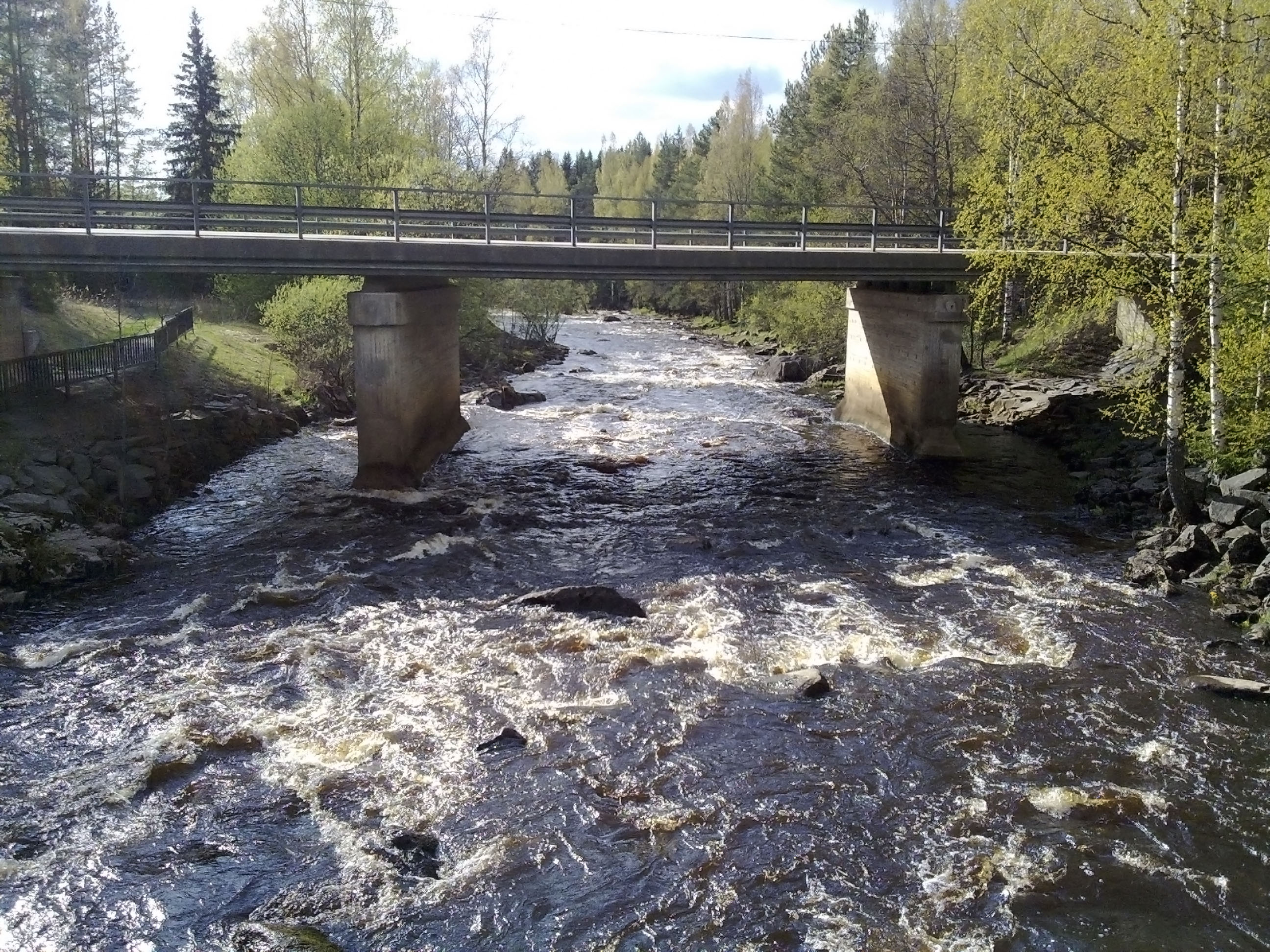 Highway 8 (E8) crossing Lankoski rapids in Merikarvia, Finland